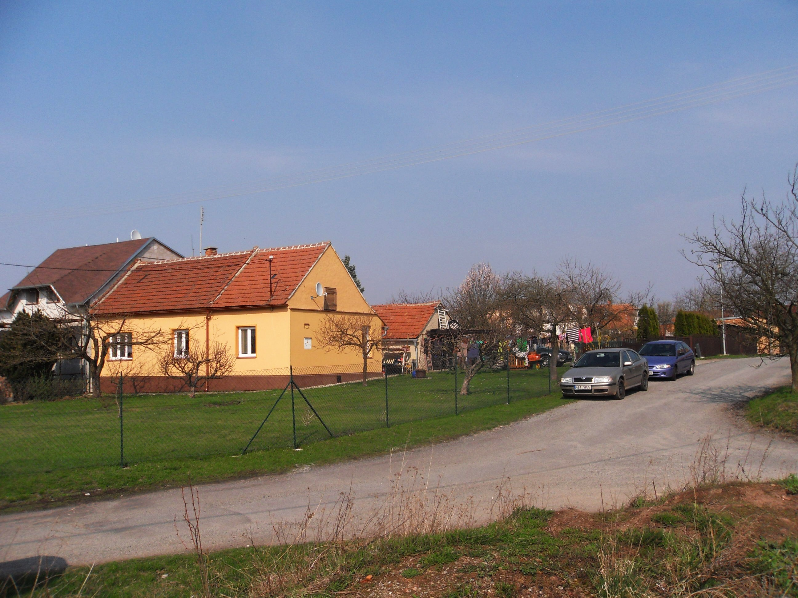 Zbýšov, Brno-venkov District, Czech Republic